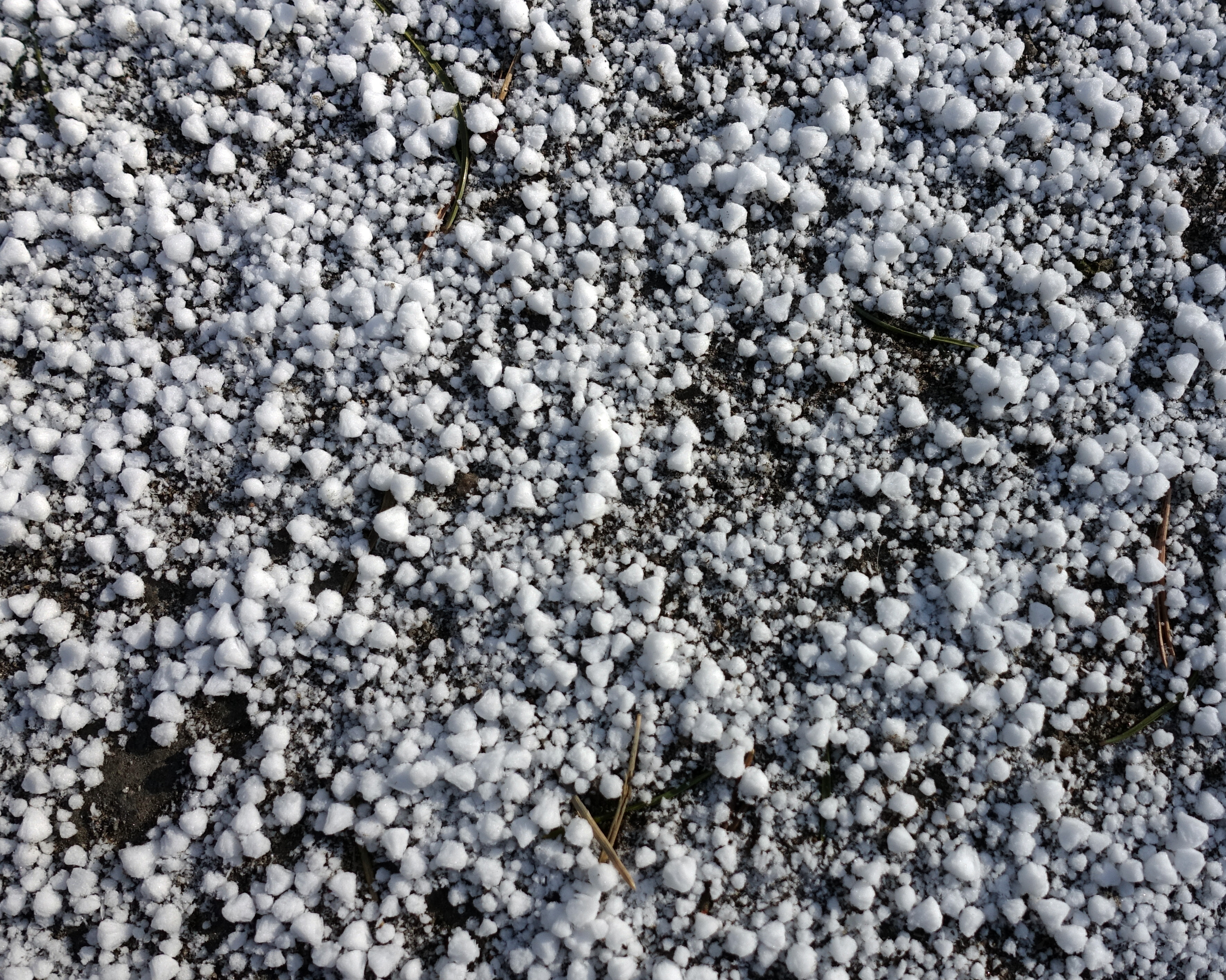 Hail in Jyväskylä, Finland.